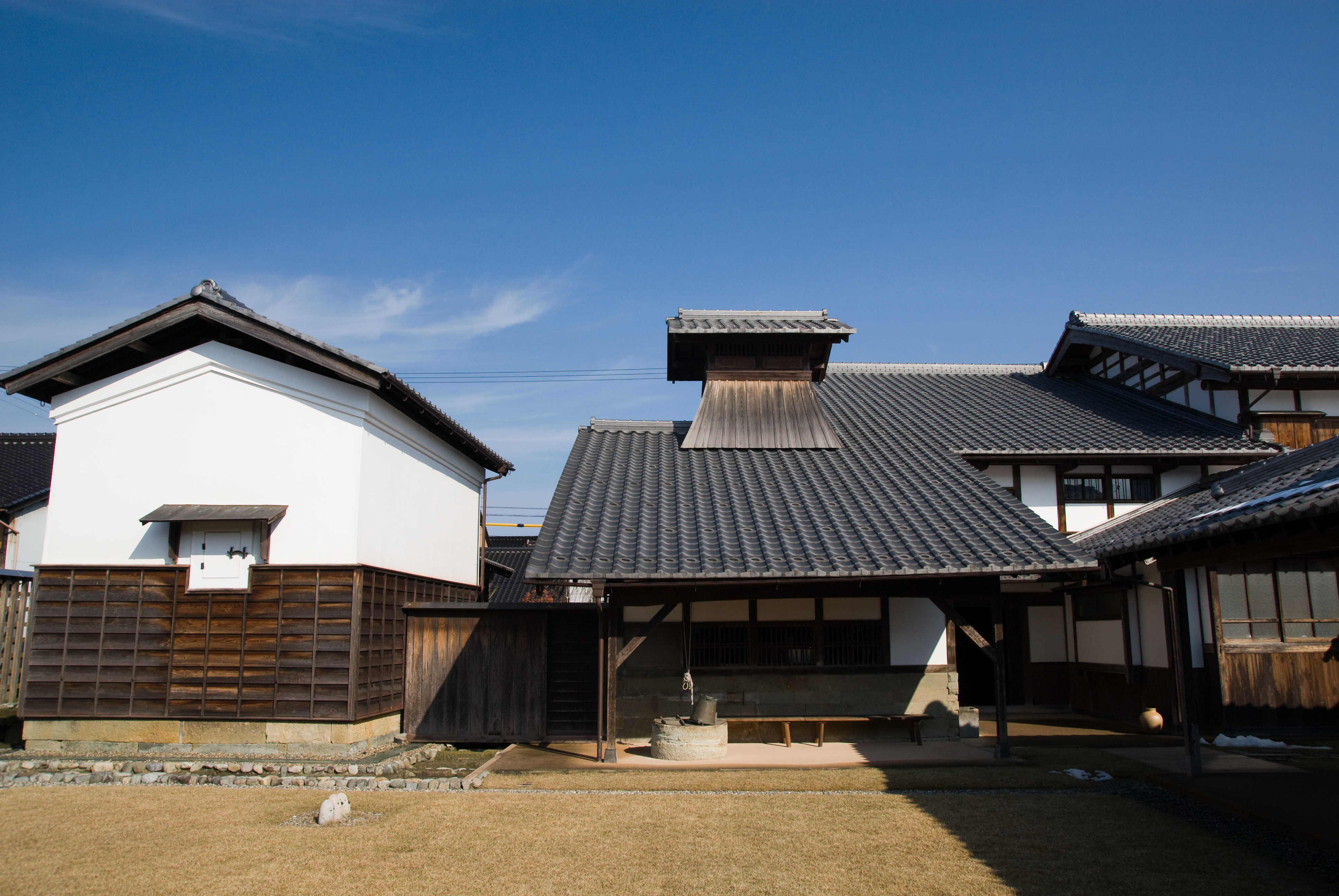 INABAHONKE in Kyotango, Kyoto Prefecture, Japan.